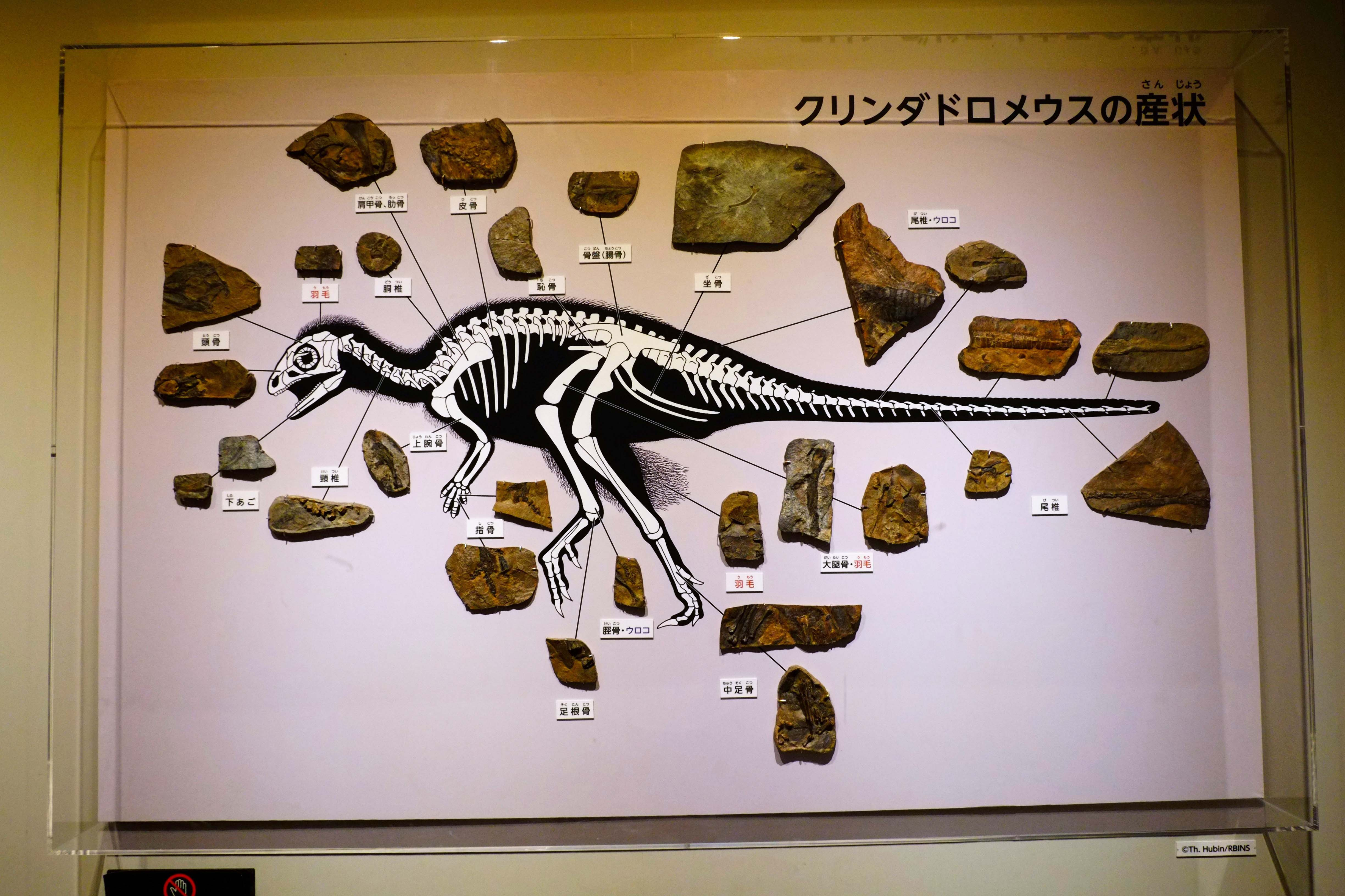 クリンダさんじょう